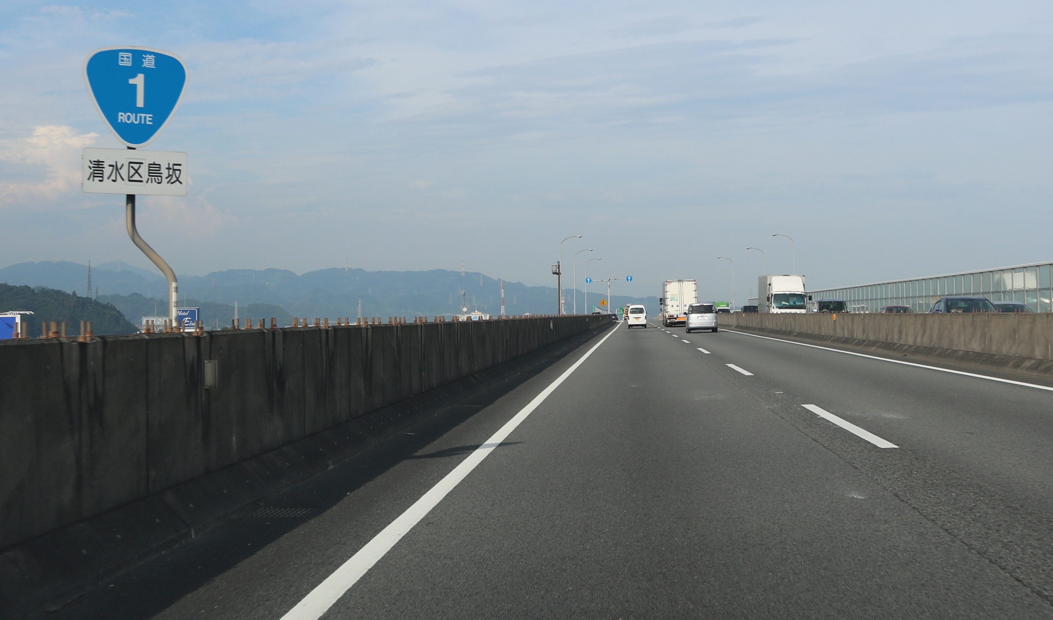 Seishin Bypass of Route 1 in Torisaka, Shimizu-ku, Shizuoka City, Shizuoka Prefecture, Japan.